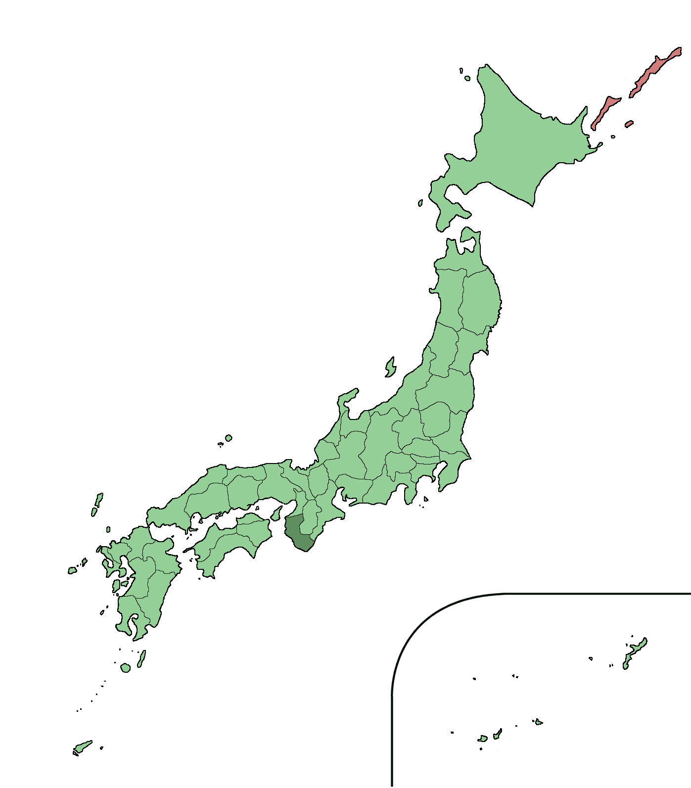 Large size map of Japan with Wakayama highlighted, self made but originally based on a japanese mapbook.